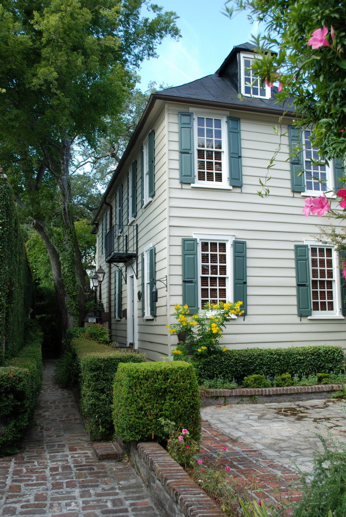 Thomas Elfe House in Charleston, South Carolina